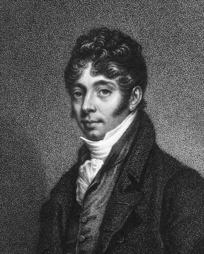 John Cunningham Saunders, M.D. (1773–1810)